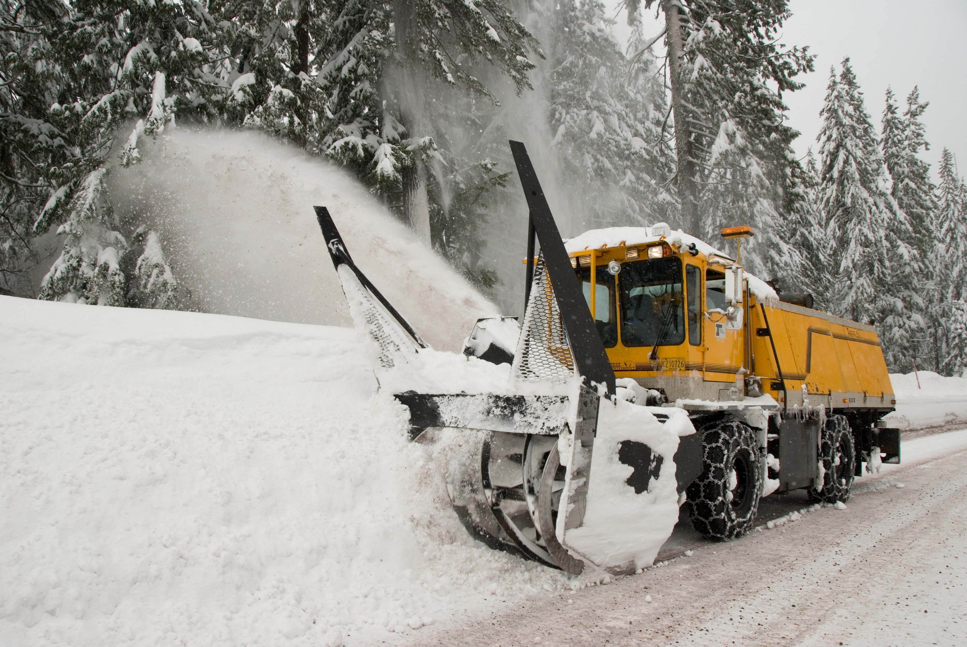 Rotary plow helps clear a mountain pass in Oregon near Detroit. January 2008